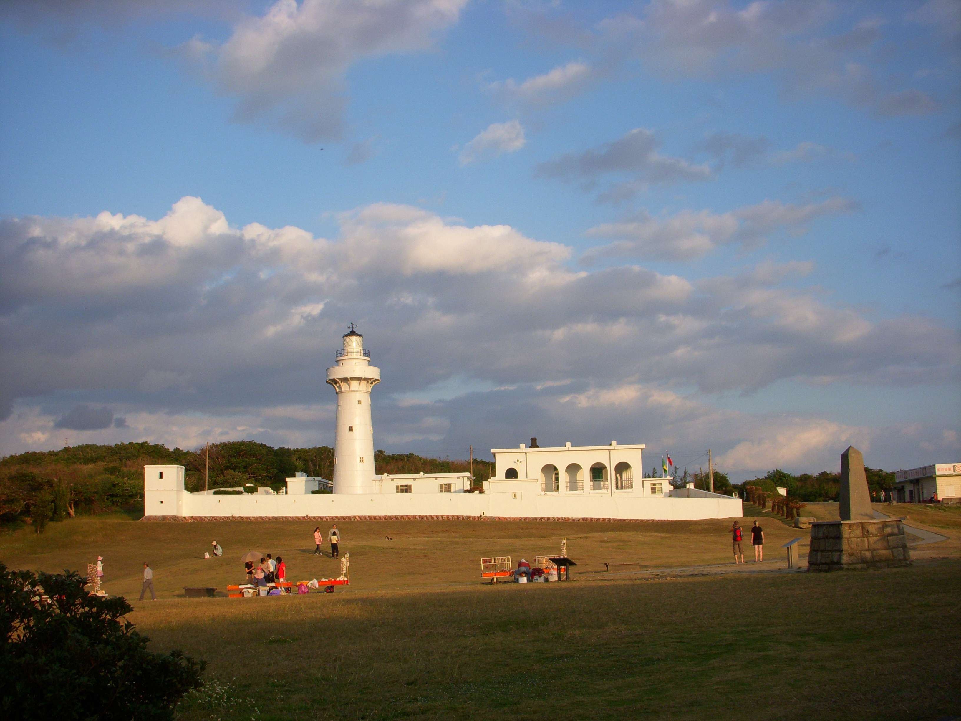 Eluanbi Lighthouse, located in Pingtung County, Taiwan